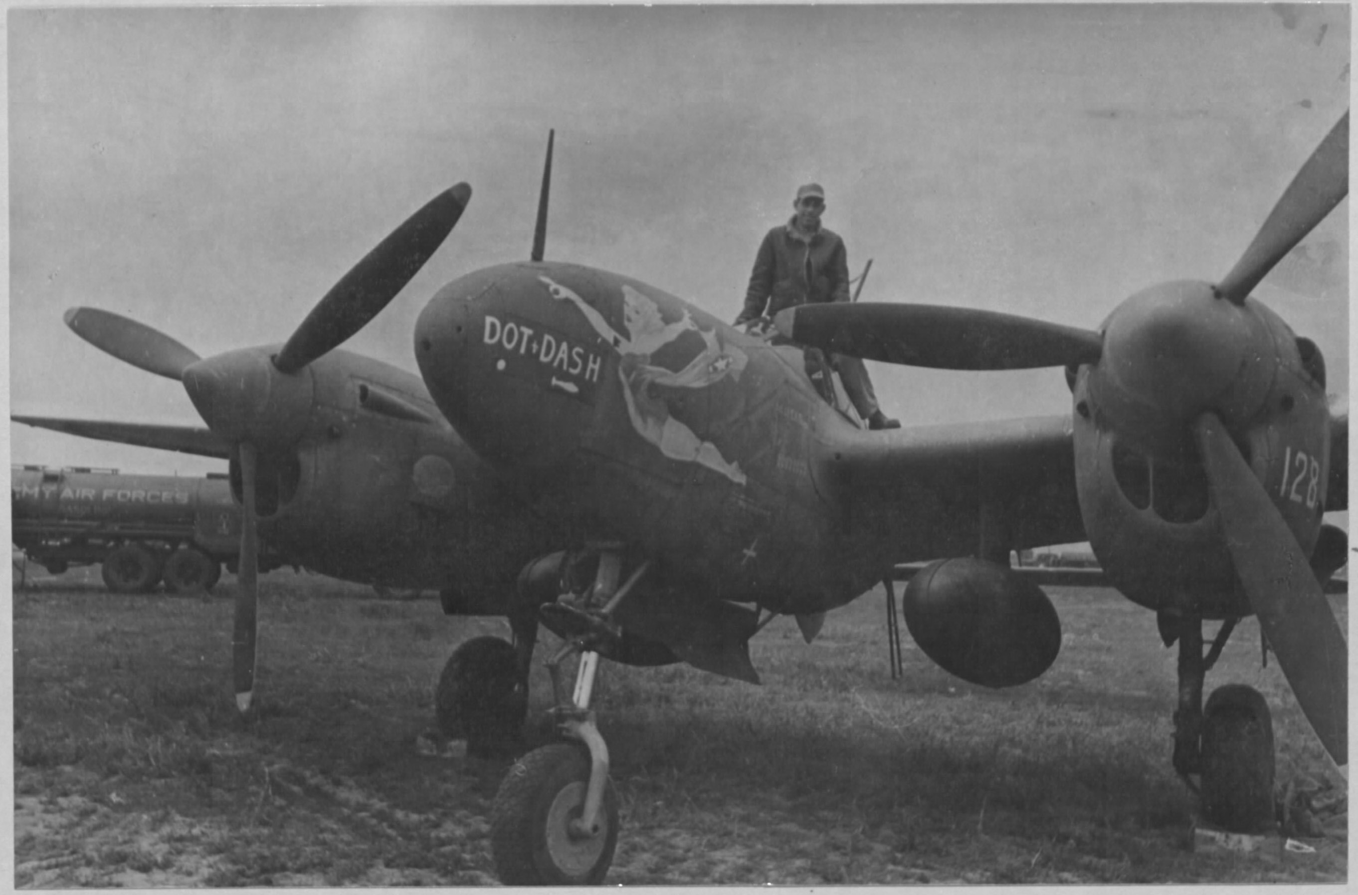 An American Gi Prepares To Check The Lockheed P-38 Lightning [F-5C-1-LO (P-38J), 42-67128] 'Dot And Dash' After It Landed At Eurk [Poltava?], Russia. History: 5x7 print received July 1944 from Publications Section,AC/AS Intelligence. NARA Reference Number: 342-FH-3A27398-116669AC Record Group: 342 Series: FH